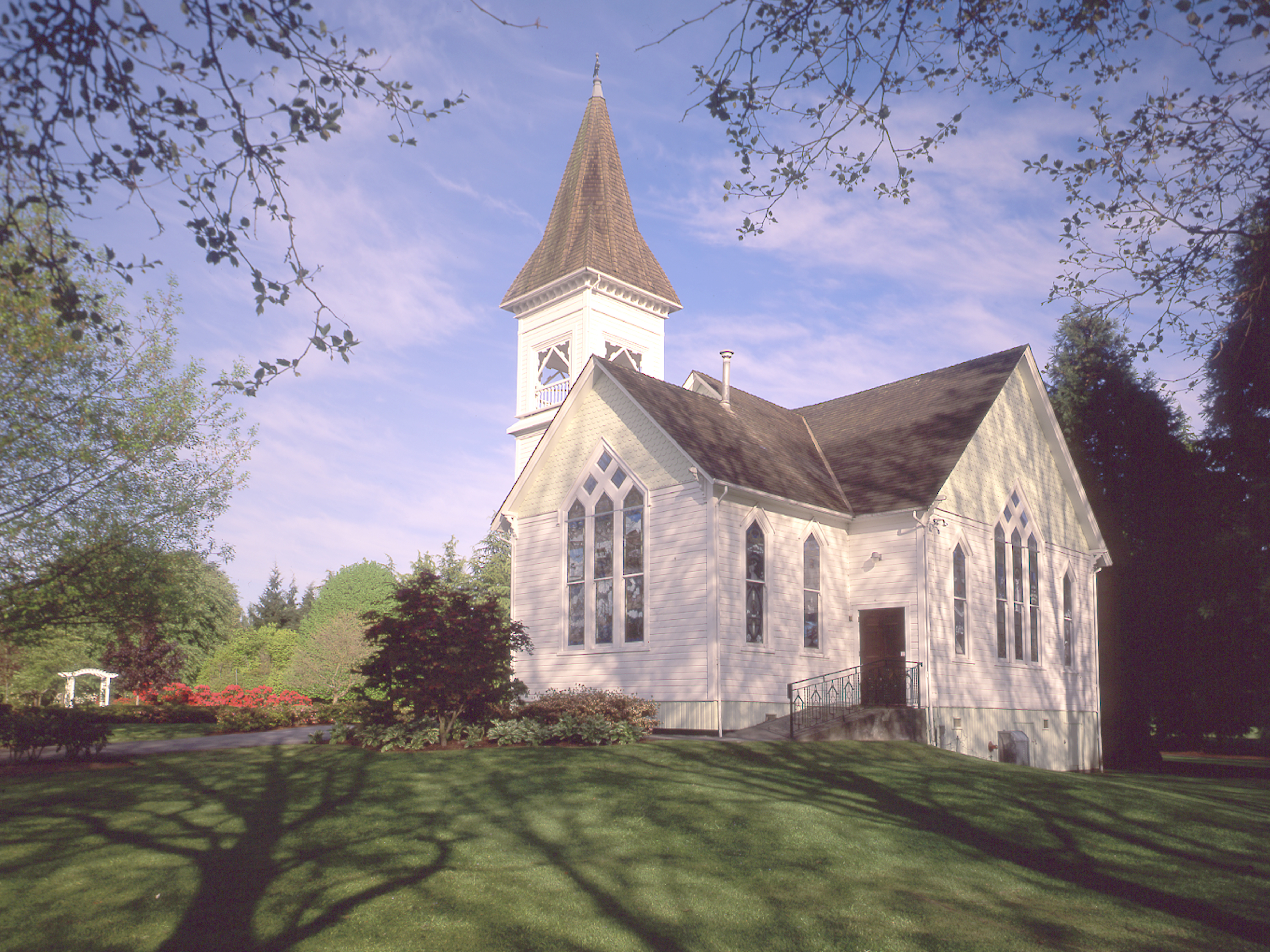 Minoru Chapel built for the Methodist Church in 1891 on the corner of No.3 Road and River Road Richomd BC was moved to Minoru Park Richmond Bc in 1967. Lately it has become famous for international weddings.